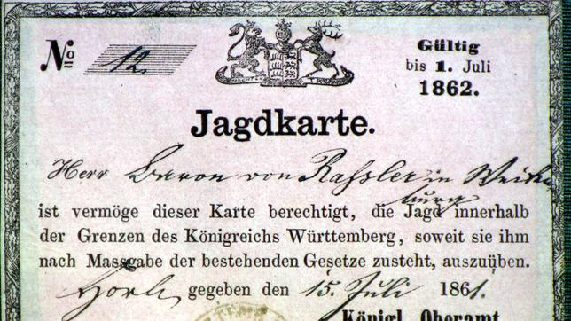 Hunting license Kingdom Württemberg, 1862